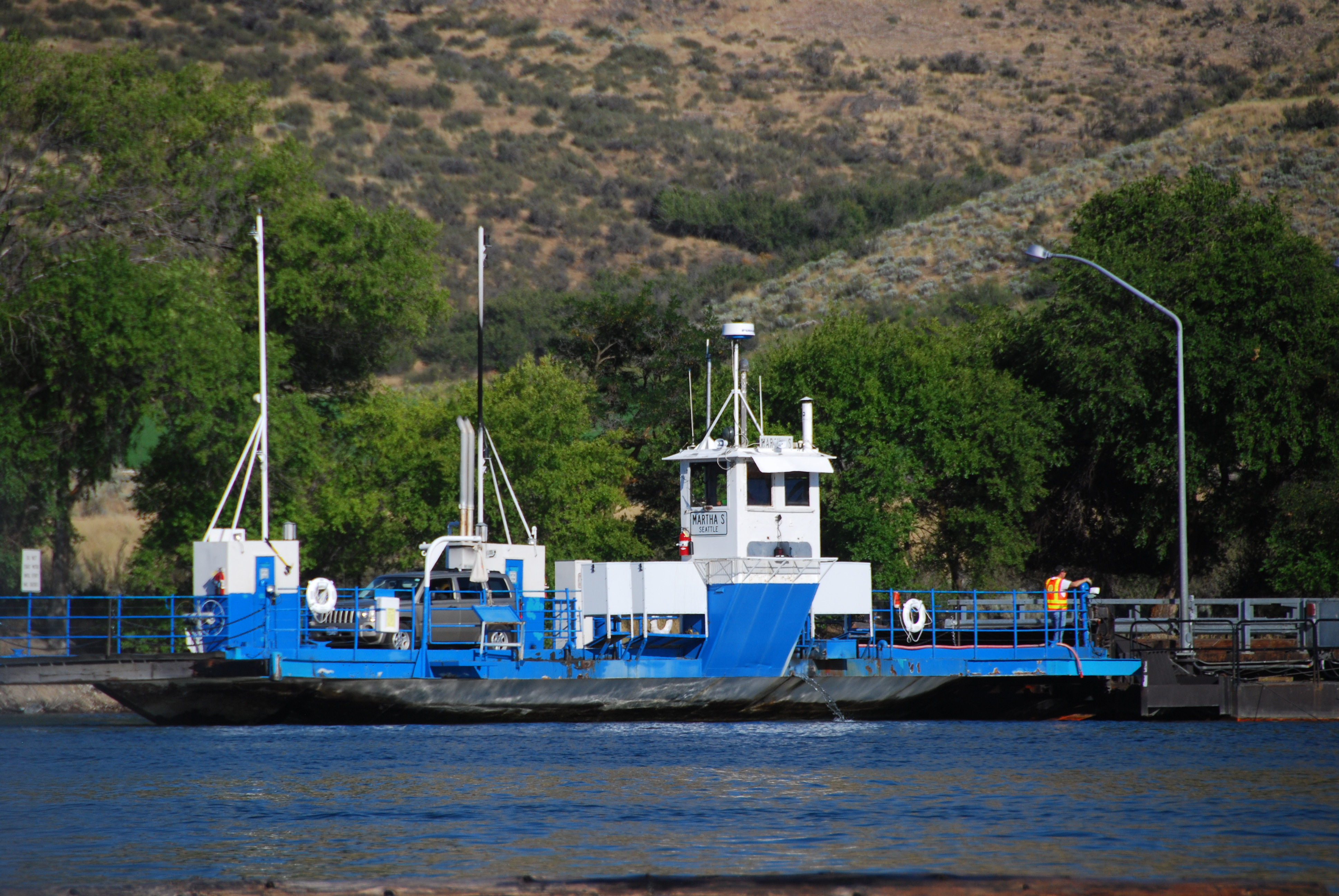 The Martha S (Keller Ferry, Washington, United States). Taken 5 August 2011.